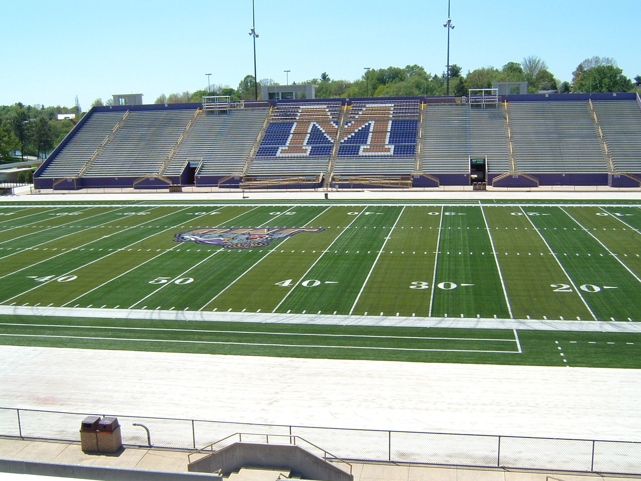 This photo is of James Madison University's Bridgeforth Stadium on the 7th of May 2007 as viewed from the away stands.